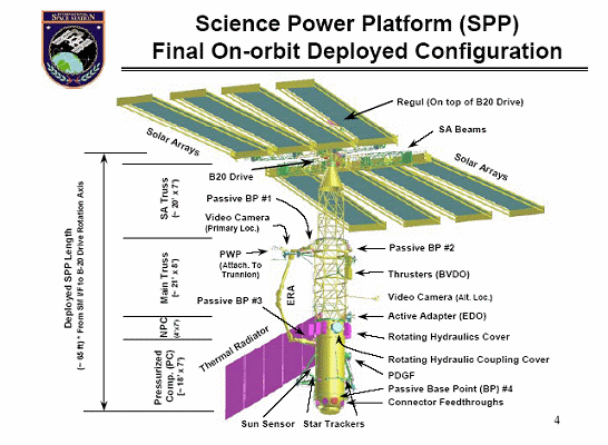 The Russian Science Power Platform, a cancelled module of the International Space Station which was to have provided the Russian Orbital Segment with an independent power supply.